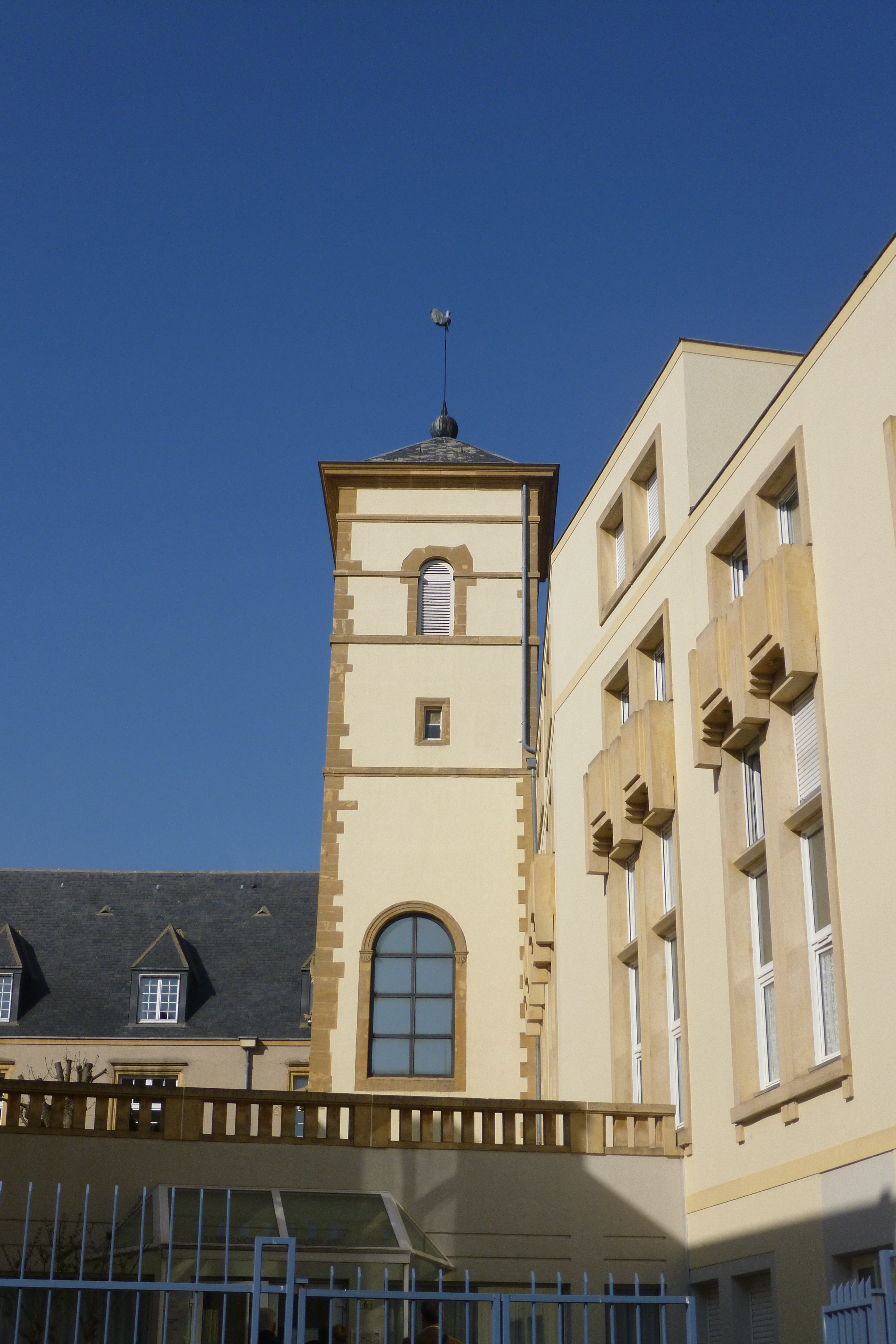 Former belltower of the Saint-Nicolas hospital chapel in Metz (19th century)